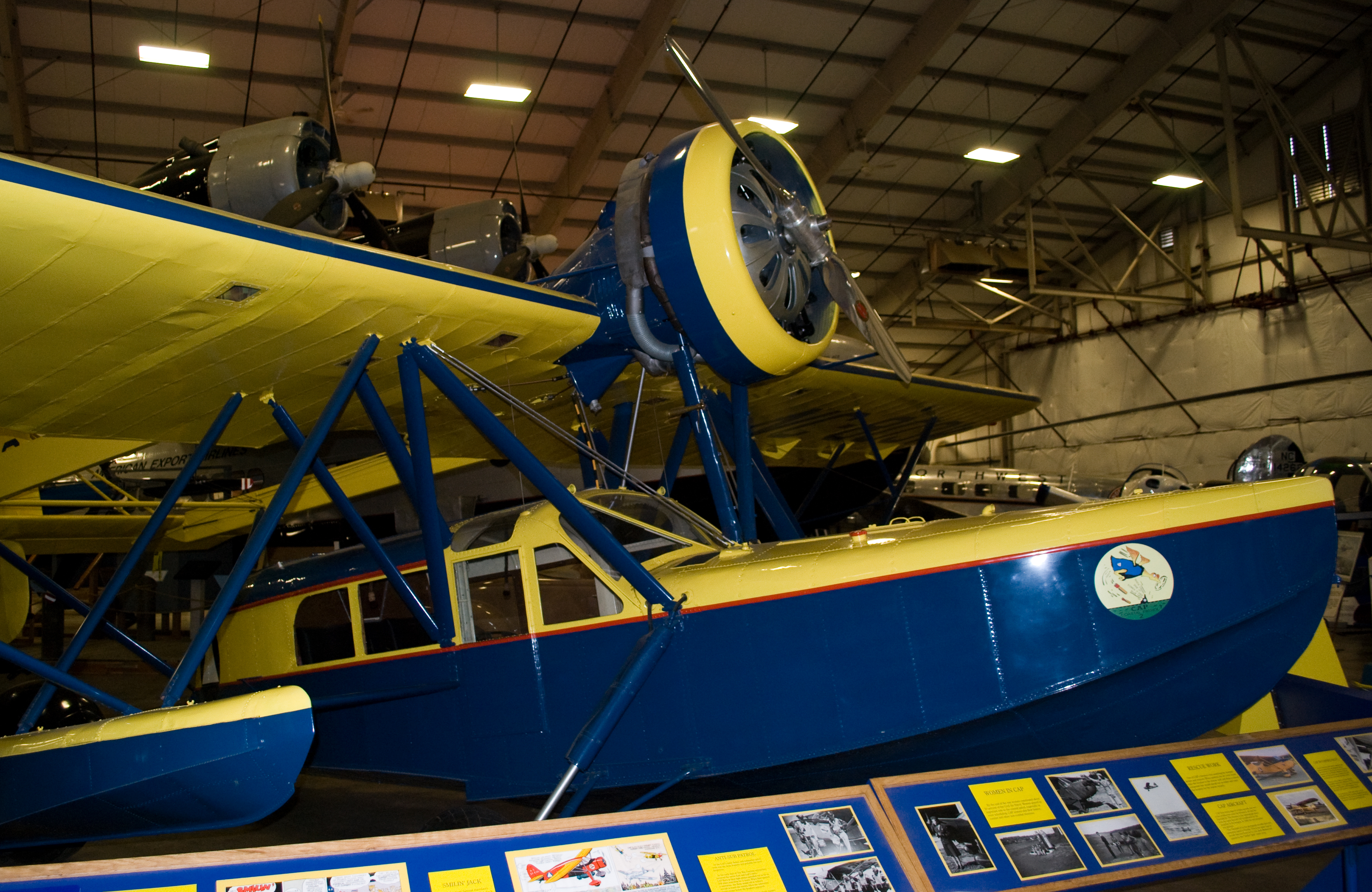 Sikorsky S-39B amphibian. This example, serial number 904, FAA registration NC803W, first flew on July 31, 1930. It was originally based in Hartford and flown by Charles W. Deeds, Vice-President and Treasurer of Pratt and Whitney Aircraft. During WWII, it was flown by the Civil Air Patrol out of Rehoboth, Delaware, for air-sea rescue operations. One such mission resulted in the pilot Hugh Sharp and his observer Ed Edwards becoming the first civilians ever to be awarded the military's Air Medal. The mission also earned Sikorsky the prestigious Collier Trophy. 904 closed out its flying days as a bush plane in Alaska. It was damaged in a forced landing in Yacutat, Alaska in September 1957. It remained there until 1963 when it was recovered along with NC-58V which was donated by Mr. Phil Redden of Spenard, Alaska to the Bradley Air Museum. Both aircraft were then shipped via air freight by a C-123K Provider to the former Bradley Air Museum, now New England Air Museum Windsor Locks, Connecticut on Saturday October 19, 1963. Through the joint cooperation of the Alaska ANG and under the direction of Maj General Reincke and Brig General Stanley of the Connecticut ANG the transfer was accomplished. It was dedicated during a brief completion ceremony July of 1996.